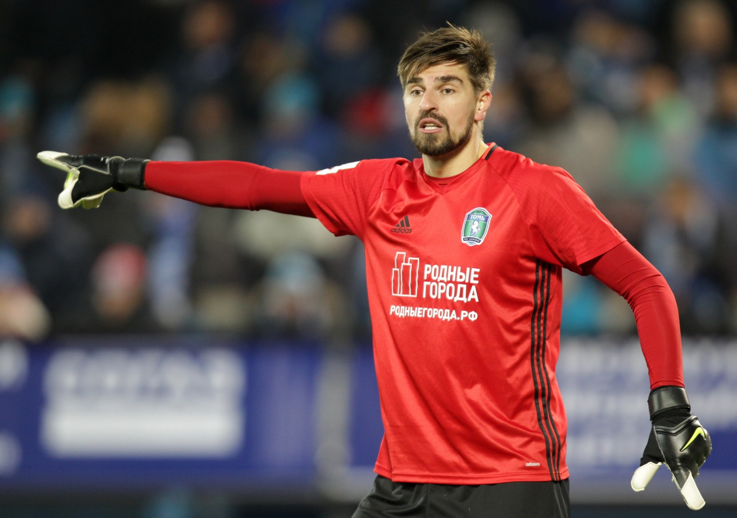 Anton Kochenkov with FC Tom Tomsk in a game against FC Zenit St. Petersburg.